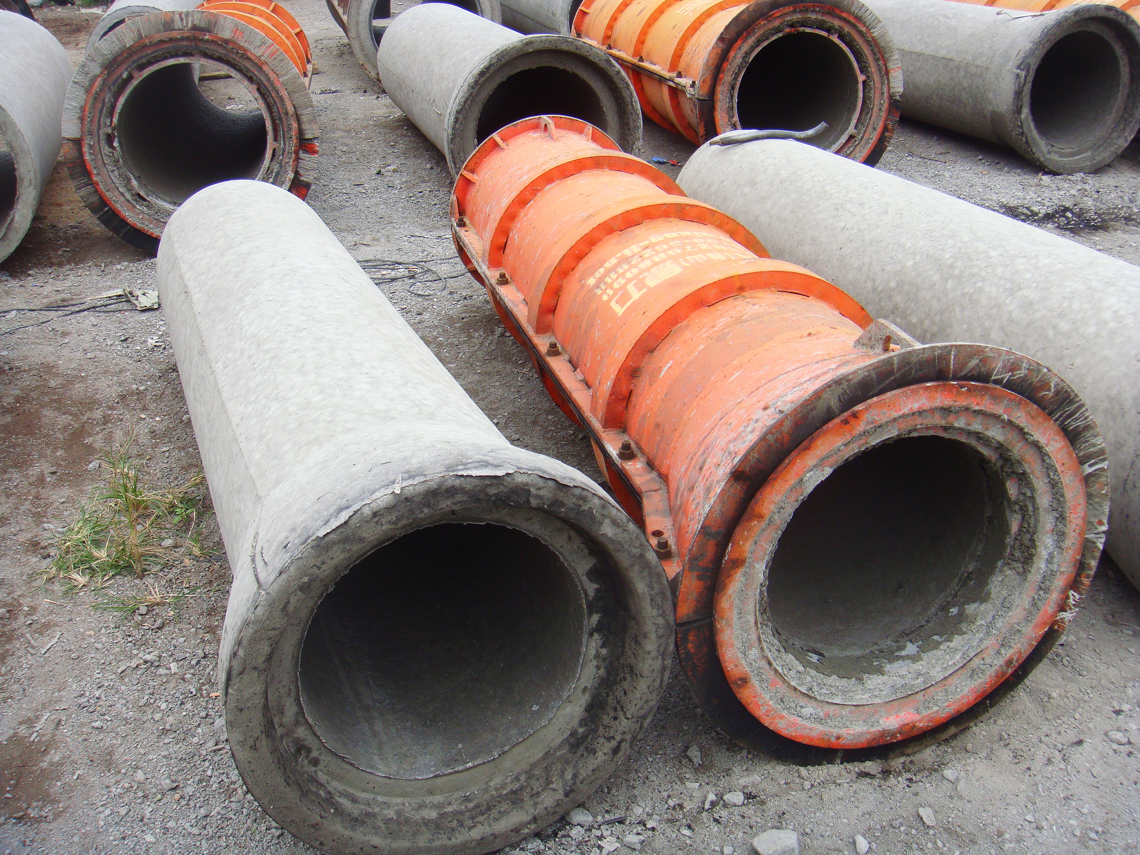 Open-air factory that produces concrete pipe made by centrifugal casting in Dingcheng, Hainan, China